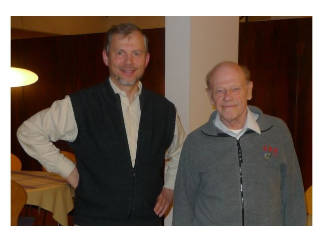 Prof. Feichtinger and Prof. Kadison, mathematicians on meeting in 2011.